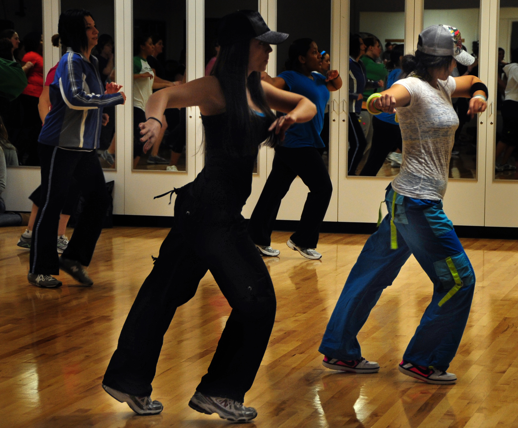 Airmen and their families attend a Zumba dance fitness demonstration during the 2011 Wellness Expo at Ellsworth Air Force Base, S.D., Jan. 22. Airmen, their families and friends had the opportunity to visit with different vendors from the Black Hills region during the expo that focused on staying fit and keeping healthy.